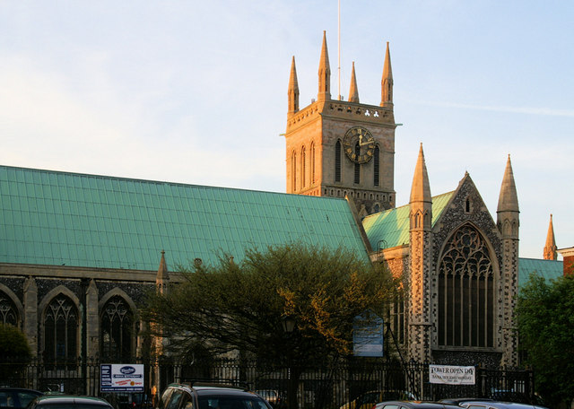 Part of St Nicholas' parish church, Great Yarmouth, Norfolk